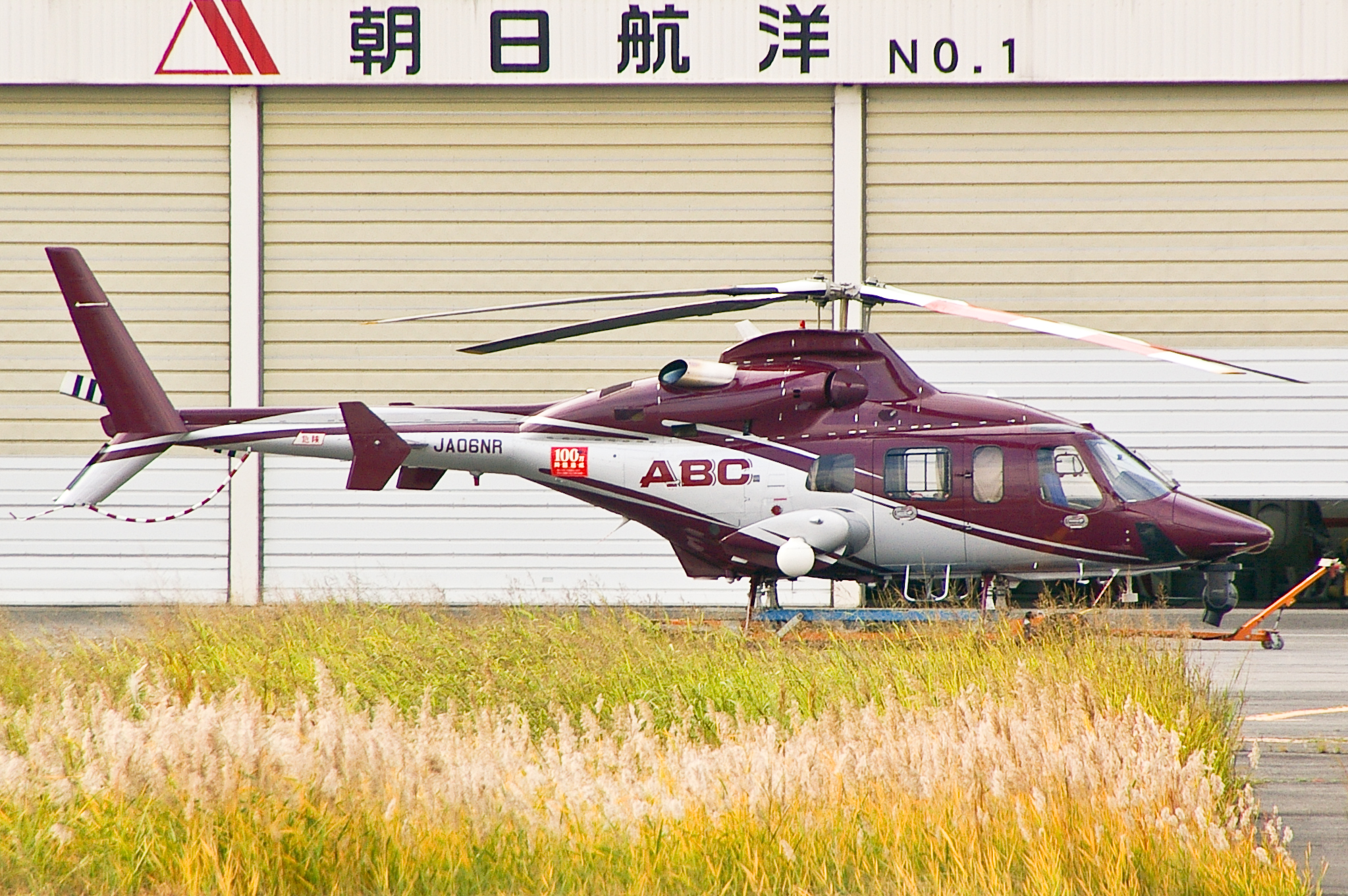 Photograph of Aero Asahi Corporation's Bell 430 (JA06NR) parking in Yao Airport, chartered by Asahi Broadcasting Corporation for news gathering, taken at Osaka Prefectural Central Wide-area Disaster Prevention Base in Yao, Osaka Prefecture, Japan.